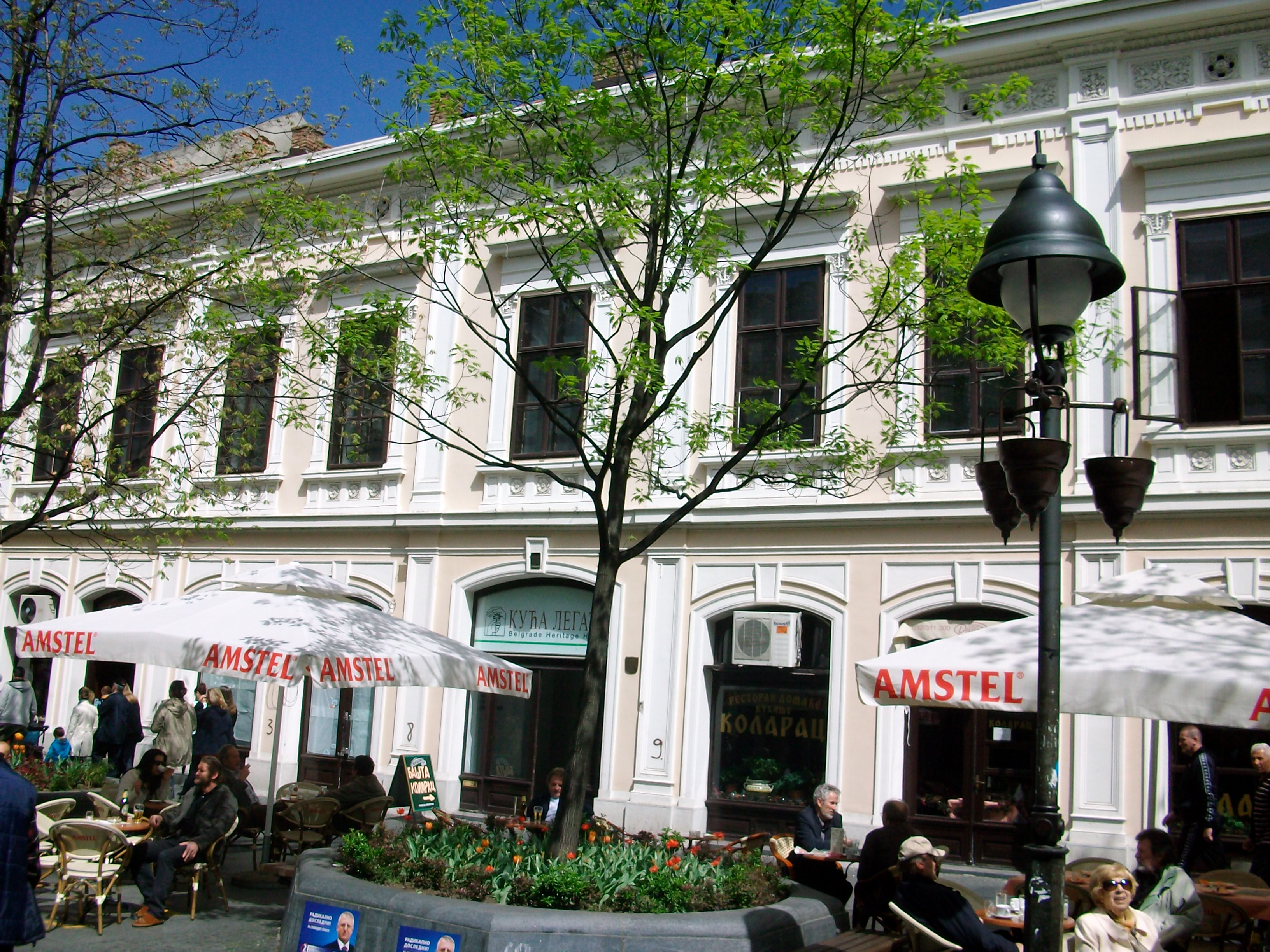 House of Legat in knez Mihajlova street